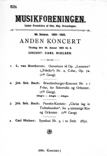 Poster for premiere of Carl Nielsen's fifth Symphony, 1922, at the Musikforeningen concert hall in Copenhagen, Denamrk